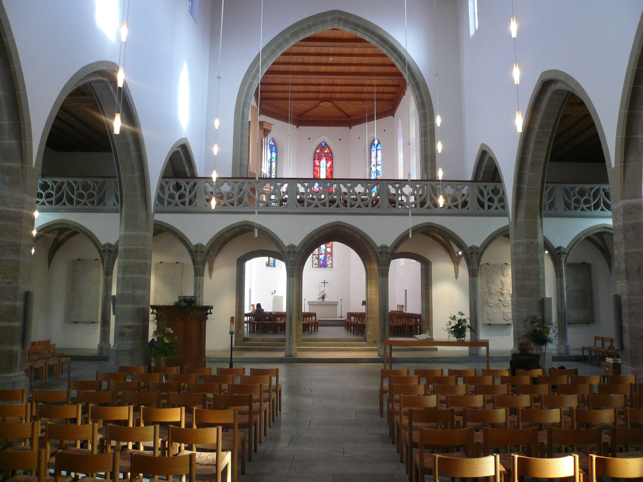 protestant city church, Aarau - inside